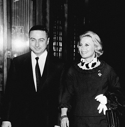 VENICE, ITALY - APRIL 30: Director Gérard Oury and Michèle Morgan strolling in Venice, Italy, on April 30, 1960.